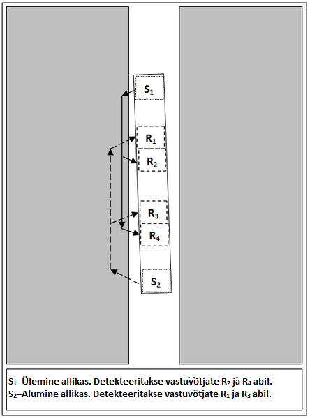 sonic logging